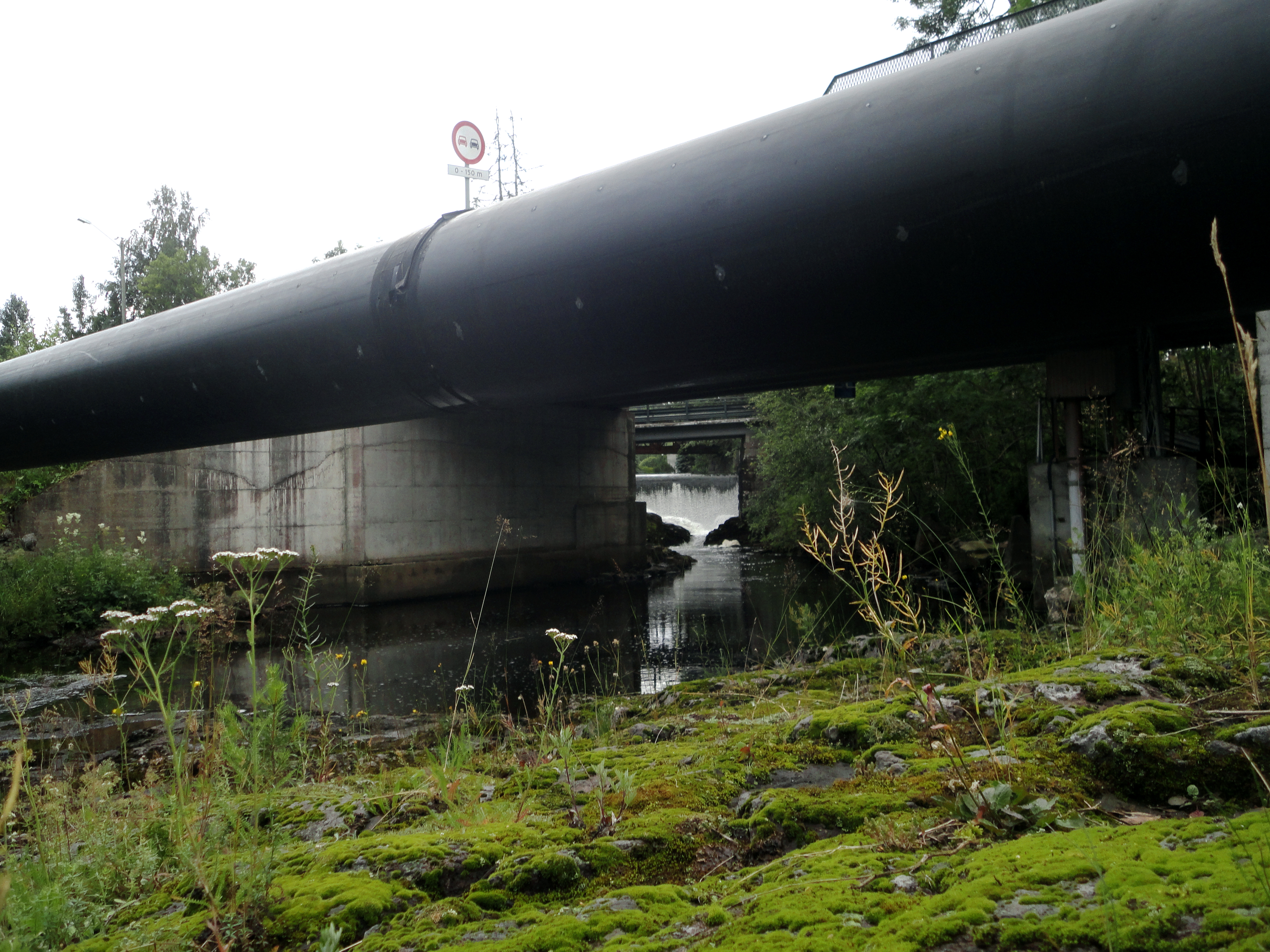 Sundbyelva in Sundbyfoss, Hof, Vestfold under several bridges. The bridges in the picture are from closest to farthest is first an infrastructure pipe, roadbridge for cars, bridge for walking and bicycles and then the former railroad bridge for both the Tønsberg-Eidsfossbanen and the Holmestrand-Hvittingfossbanen.